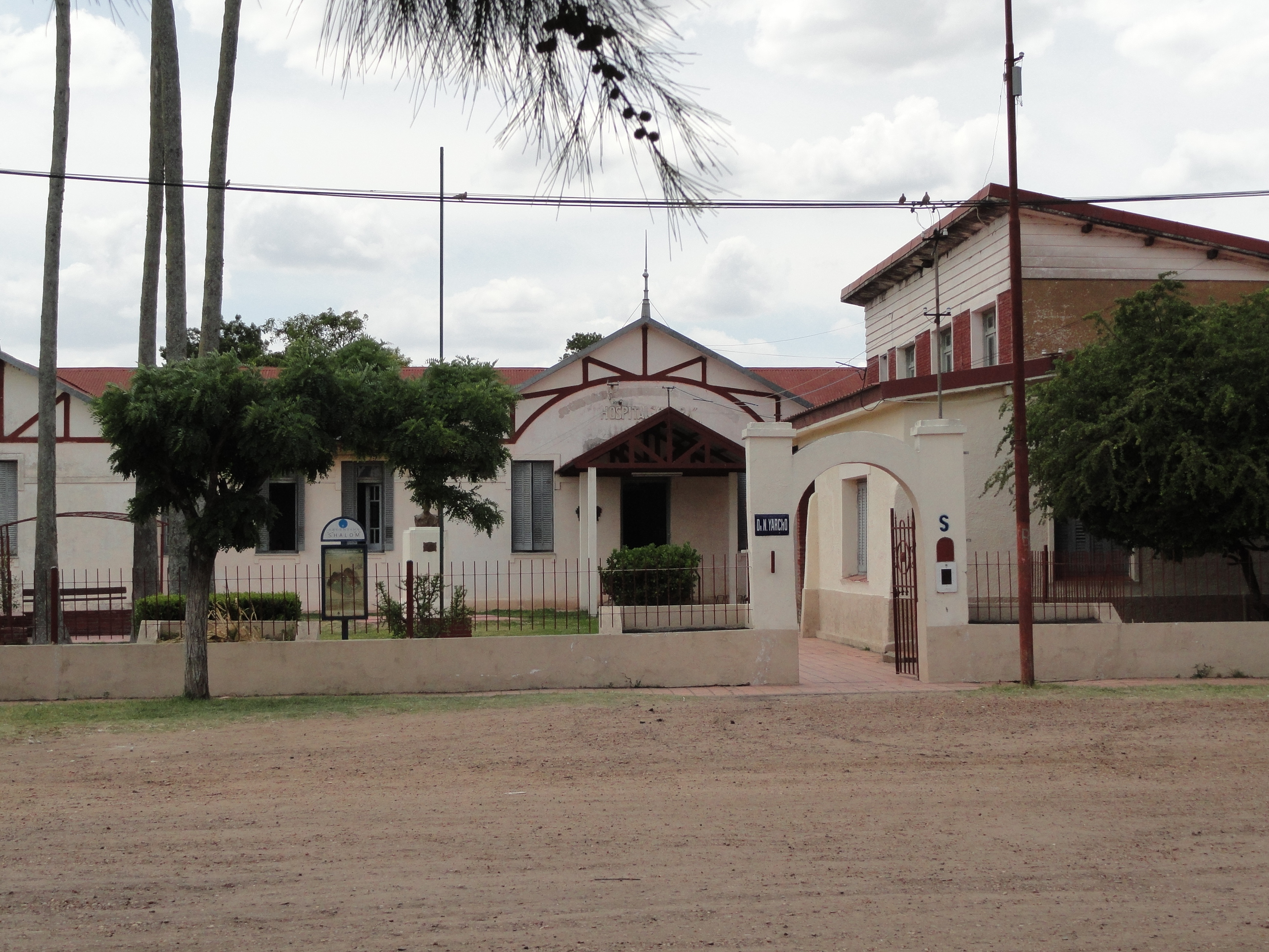 Dr Yarcho hospital - The Jewish hôspital of Villa Dominguez